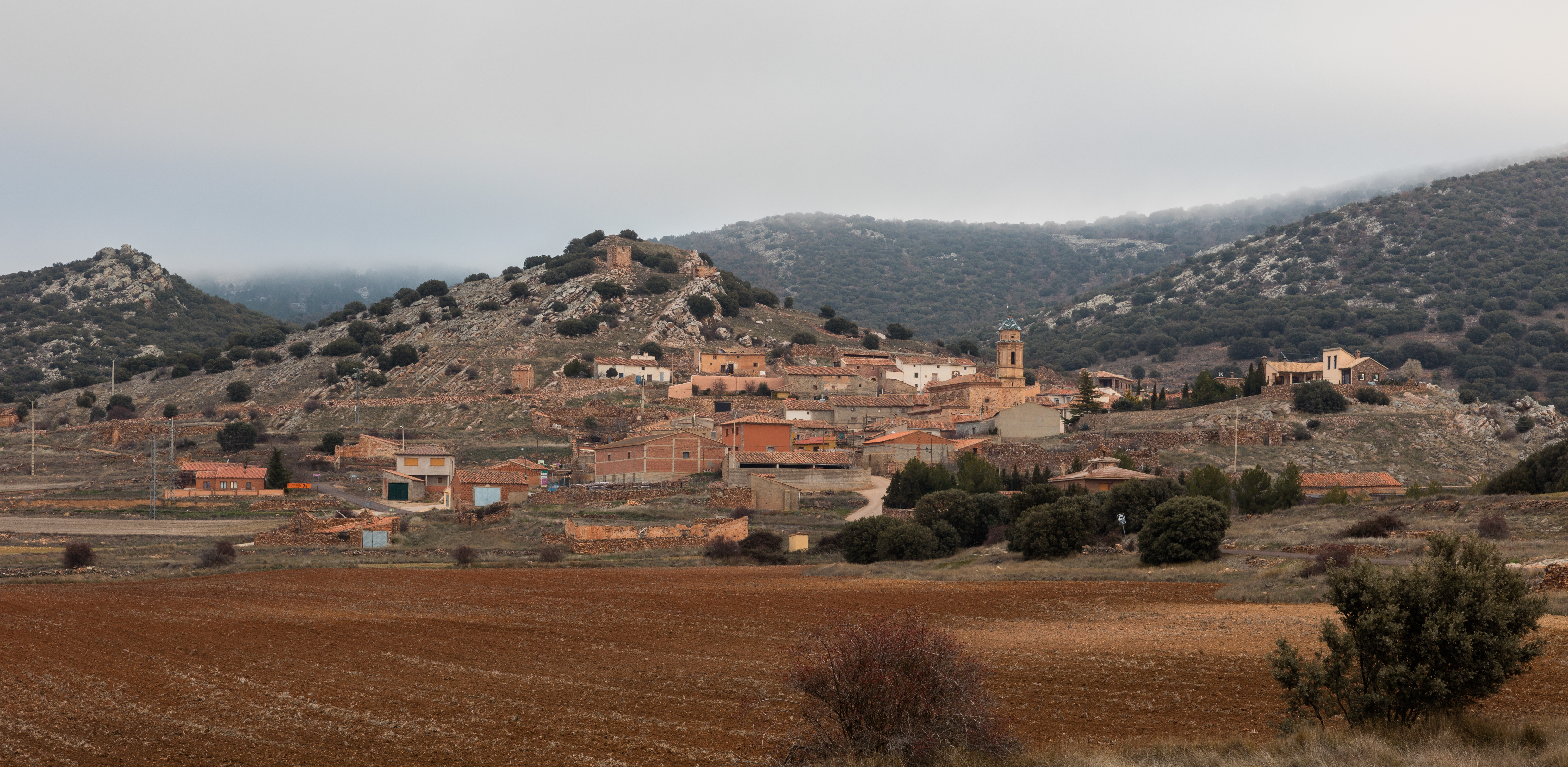 Berrueco, Zaragoza, Spain